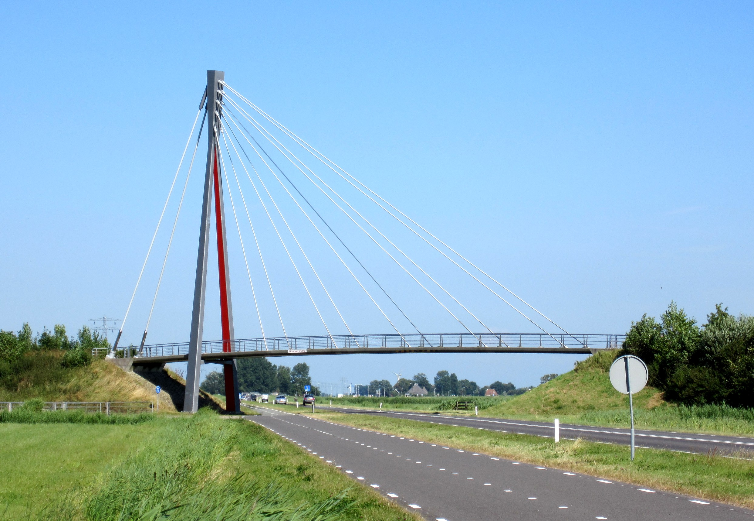 'Hitsumer Hichte' (Frisian for "Height of Hitsum", Hitsum being a village in near there), a viaduct for cyclists over the N384 road, directly south of Franeker/Frjentsjer, Friesland, the Netherlands.